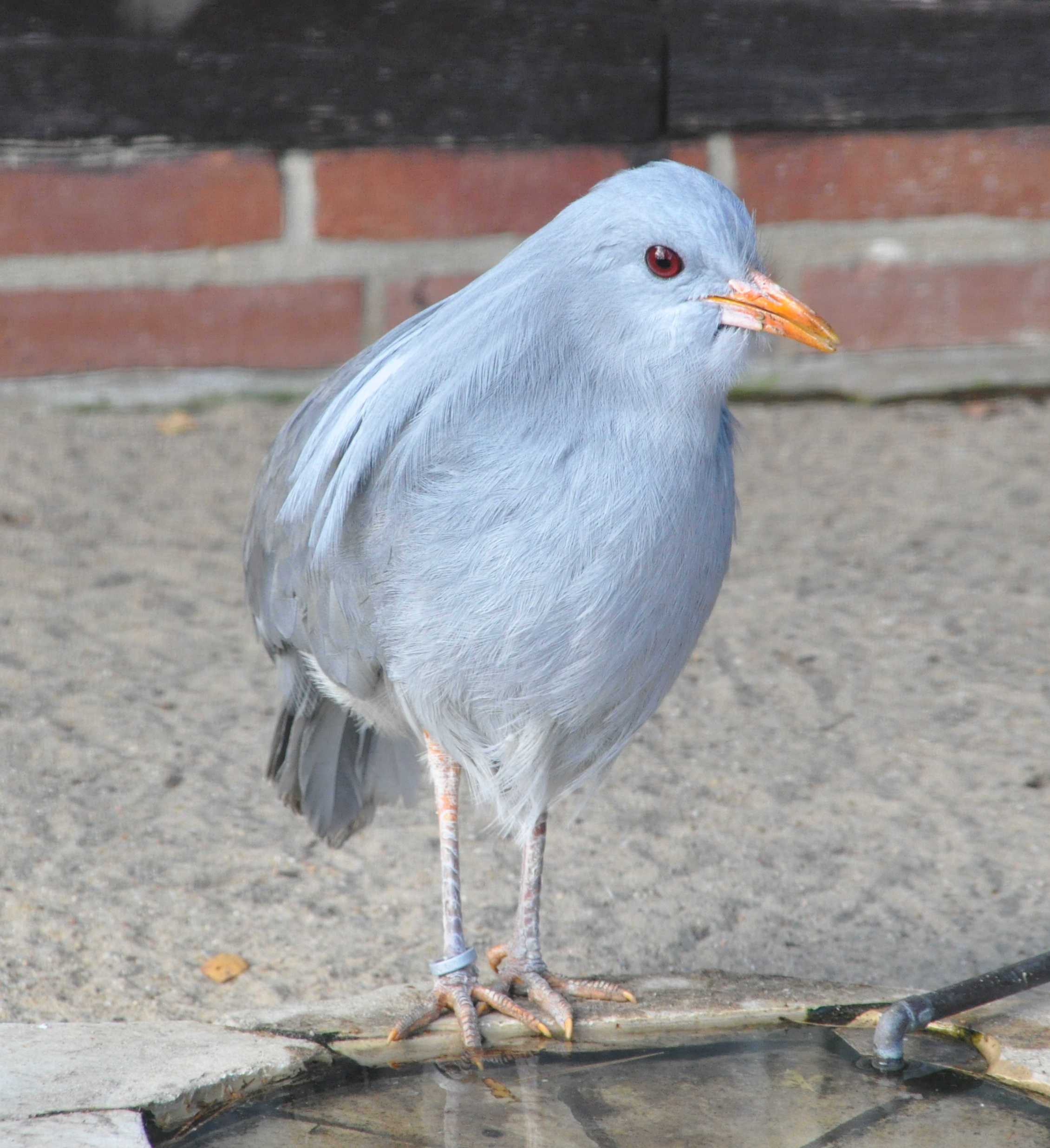 Kagu (Rhynochetos jubatus) in the Walsrode Bird Park, Germany.